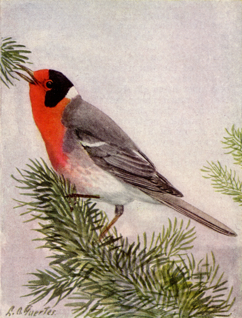 Red-faced Warbler (Cardellina rubrifrons)